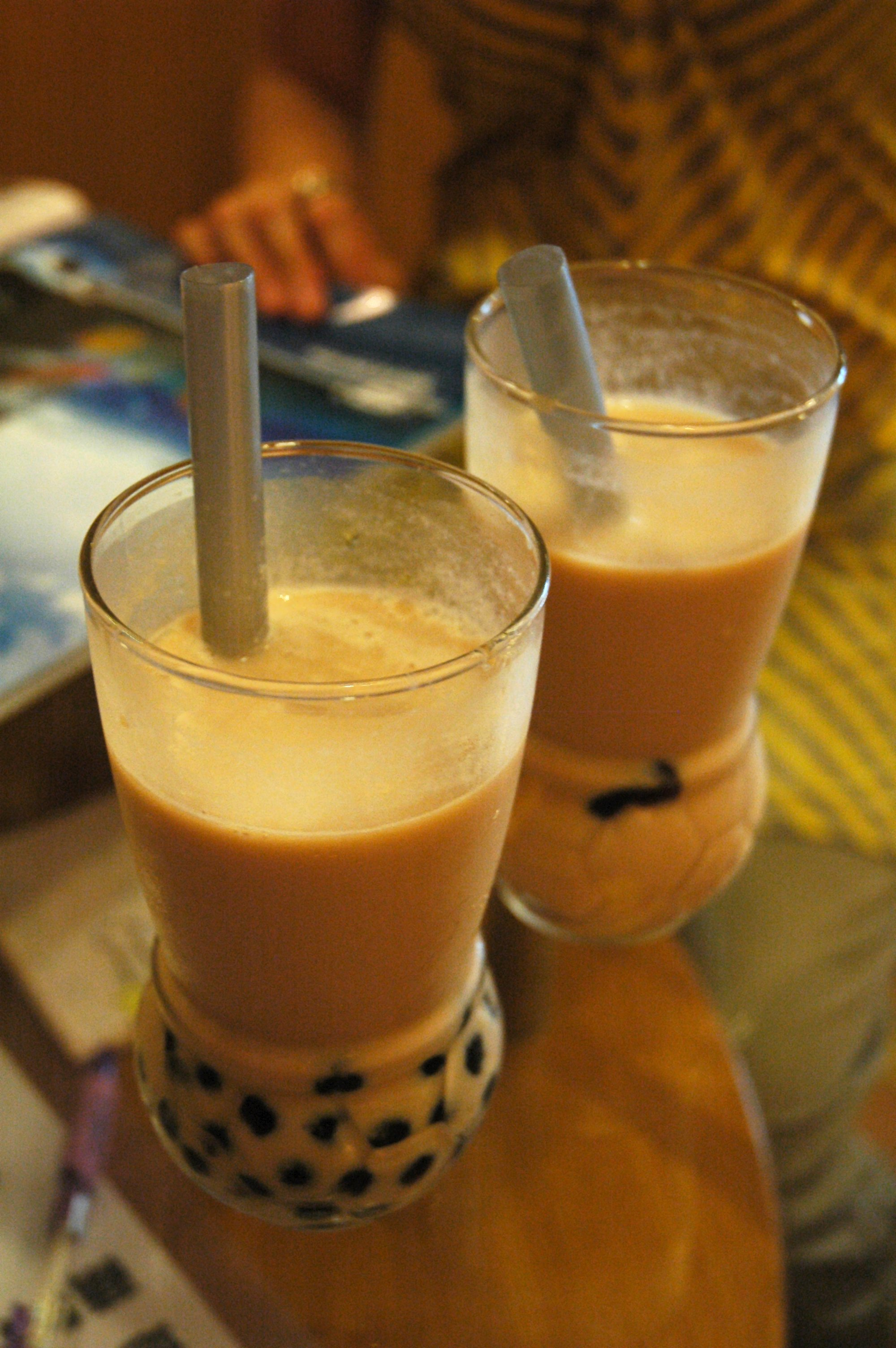 Pearl milk tea and pudding milk tea at Cha-no-Michi, Chiayi.